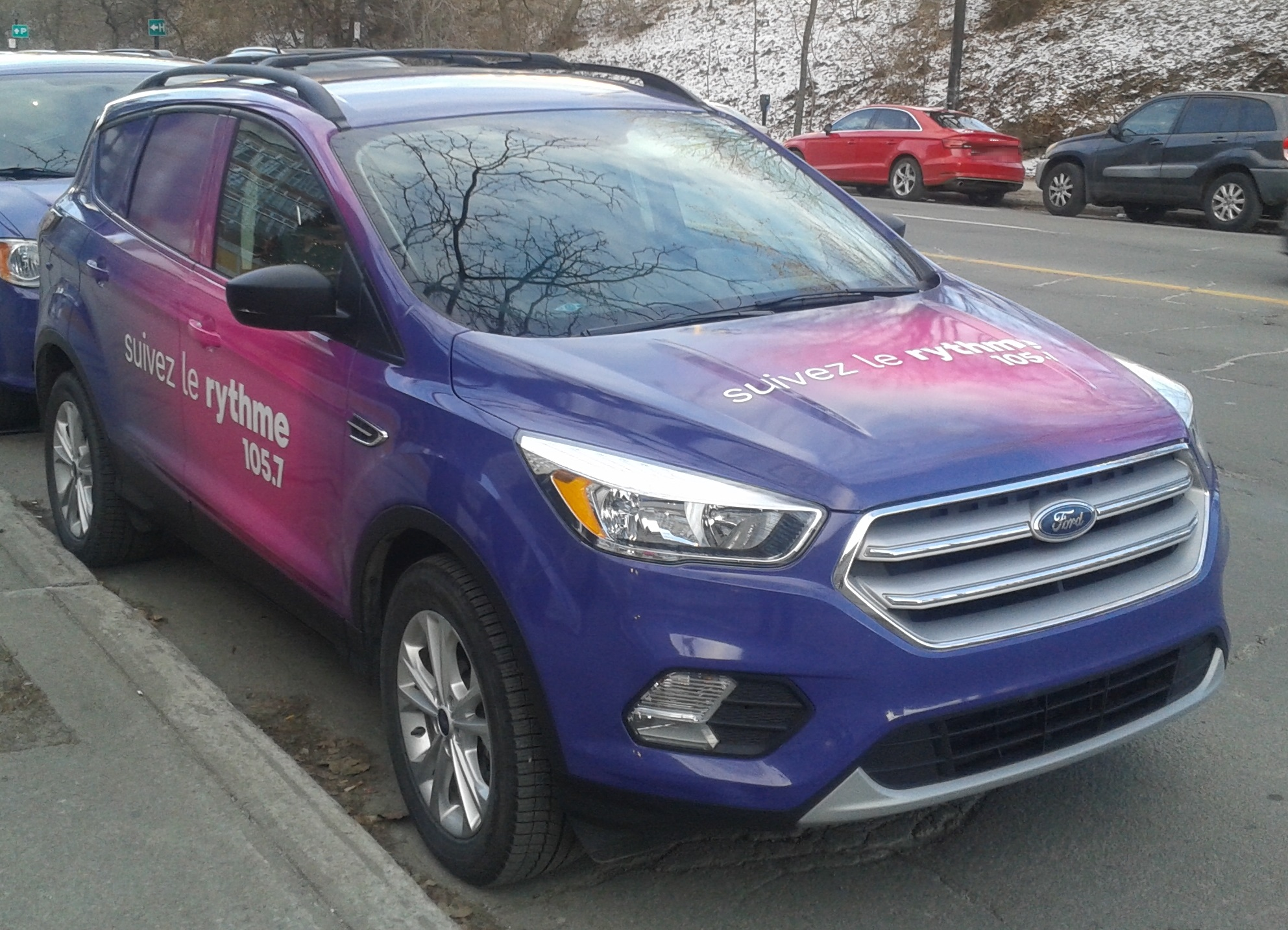 2017-2018 Ford Escape photographed photographed in Montréal , Québec, Canada with a logo of CFGL-FM (Rythme 105,7) .